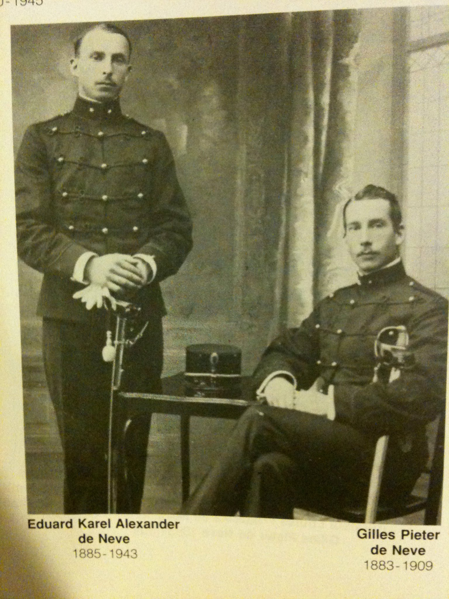 Eddy de Neve A staged portrait of Eduard Karel Alexander de Neve and his older brother, Gilles Pieter de Neve taken at an unknown location in the Dutch East Indies during the early 1900's.